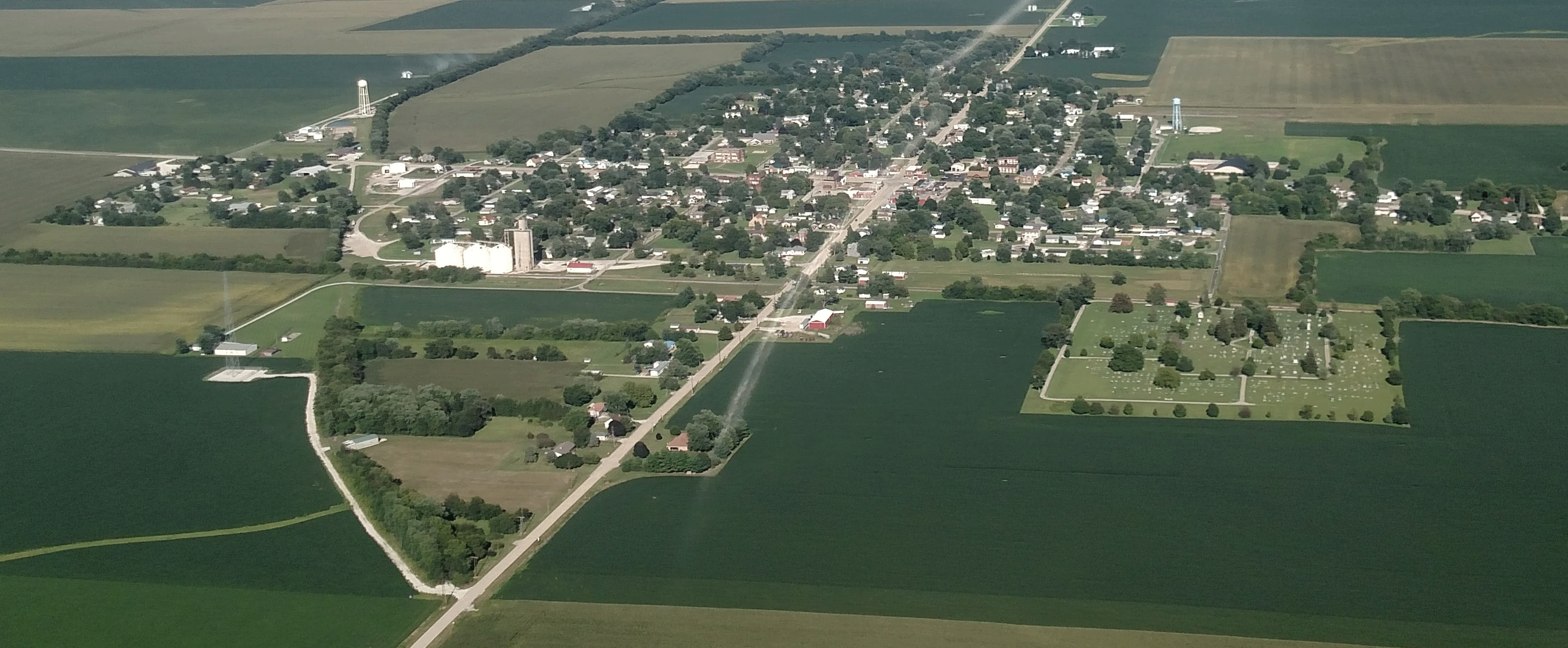 An aerial photograph of Ridge Farm, Vermilion County, Illinois, United States, looking toward the east